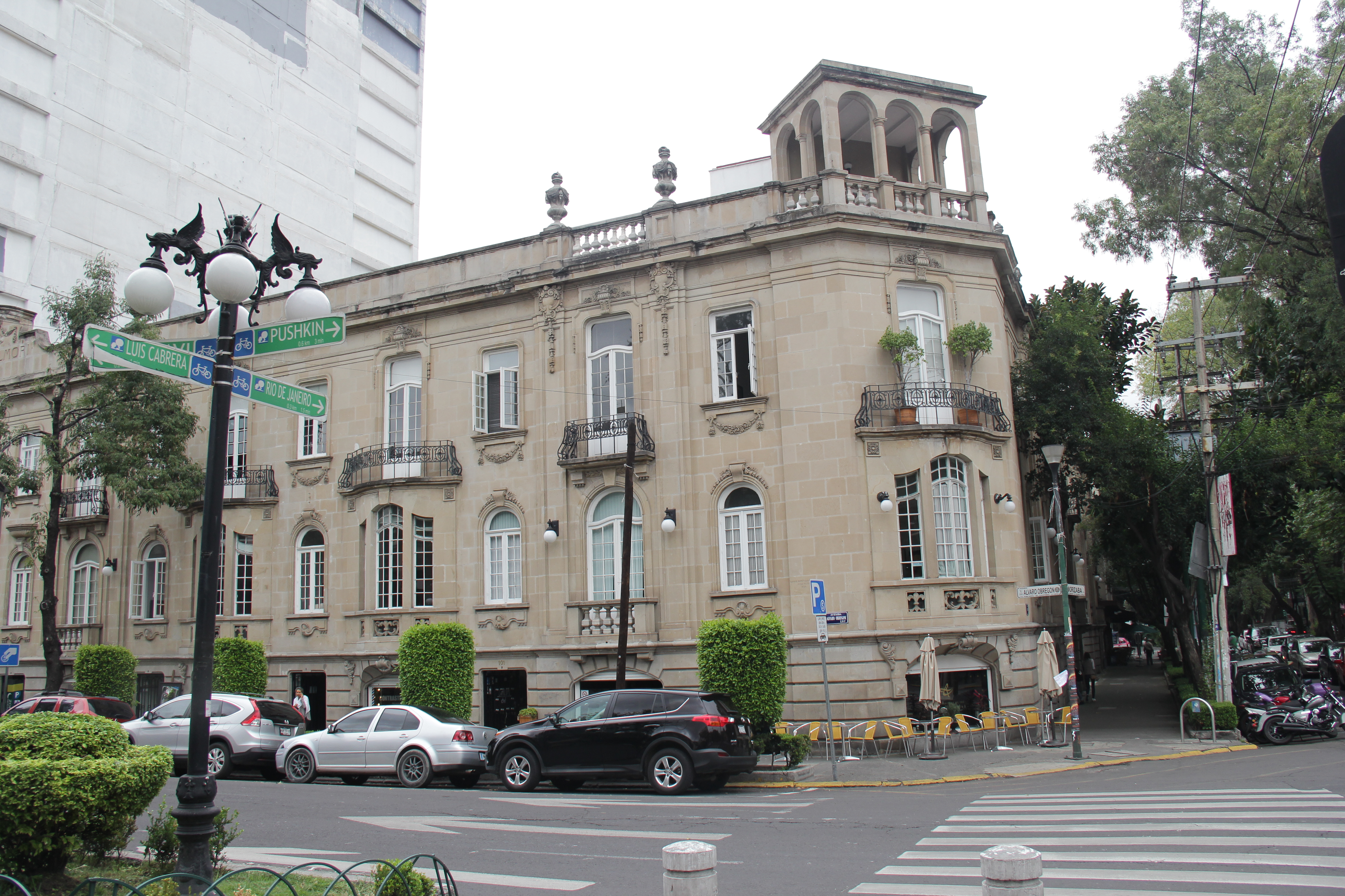 Balmori Building facade. Colonia Roma.